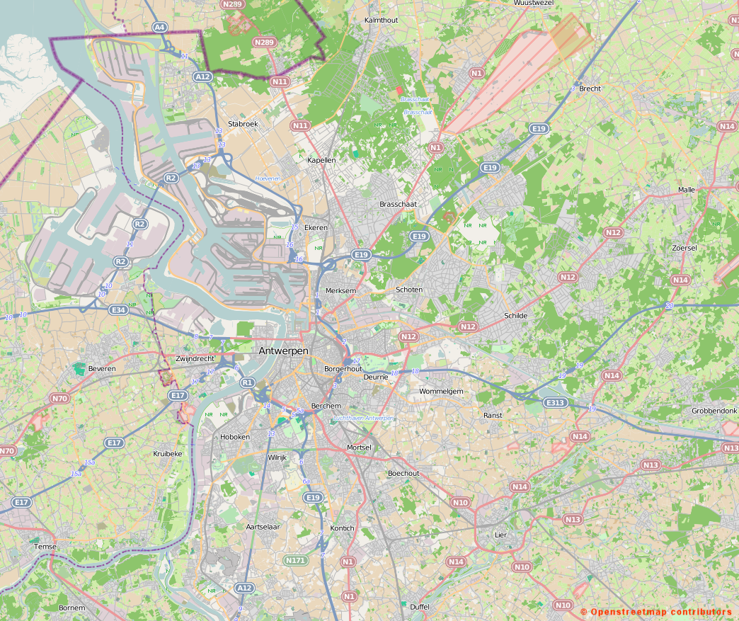 Map of Greater Antwerp area Geographic limits of the map: N 51.393° W 4.178° E 4.756° Z 51.089°